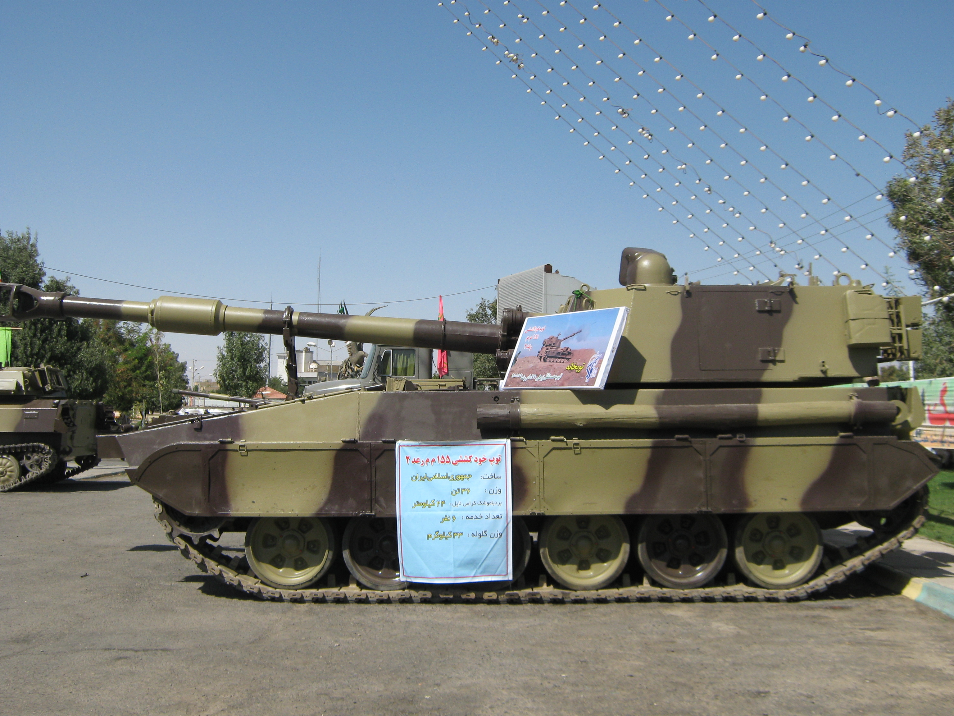 Holy Defence Week Expo - Simorgh Culture House - Nishapur